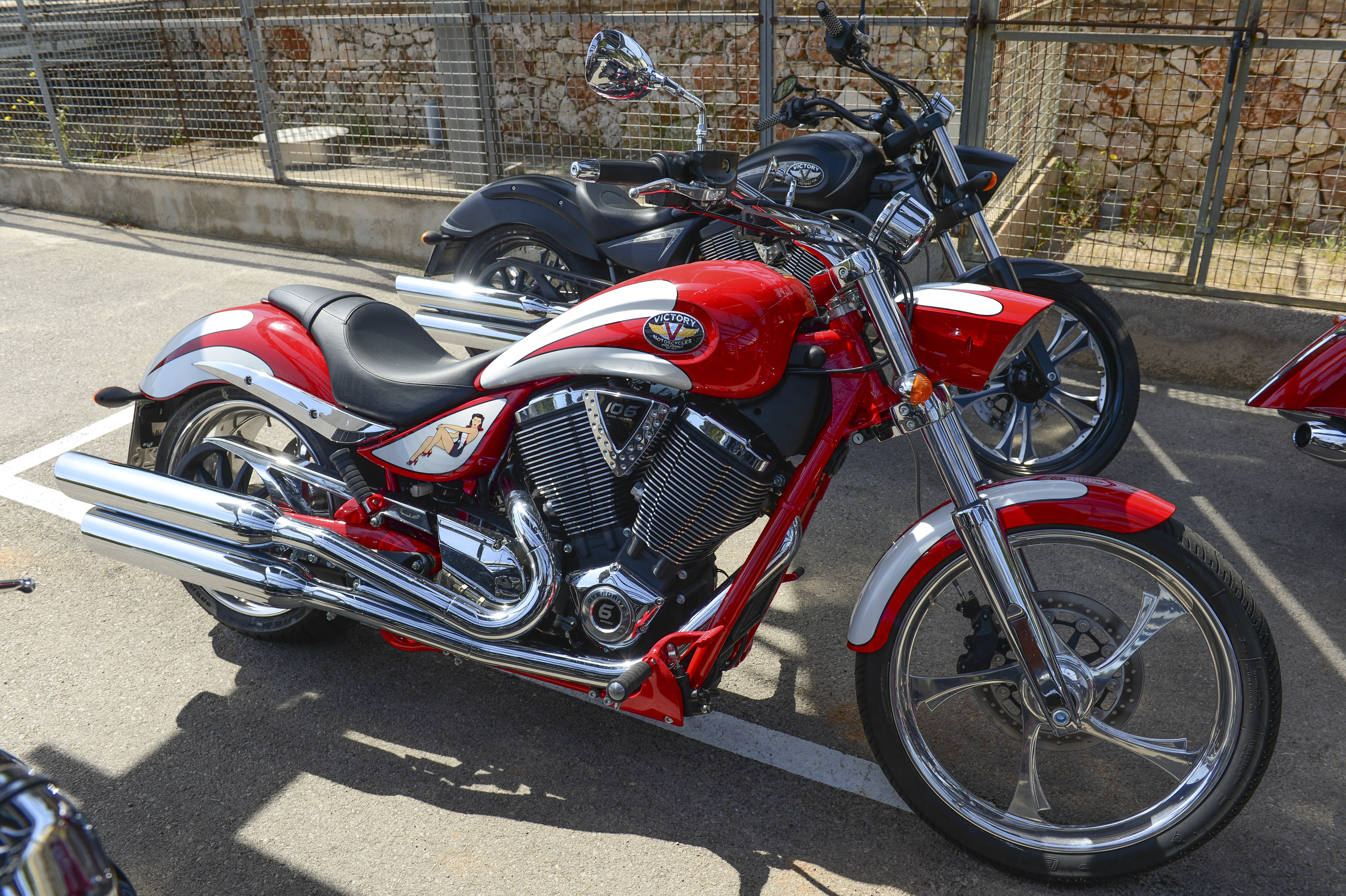 Victory motorcycles